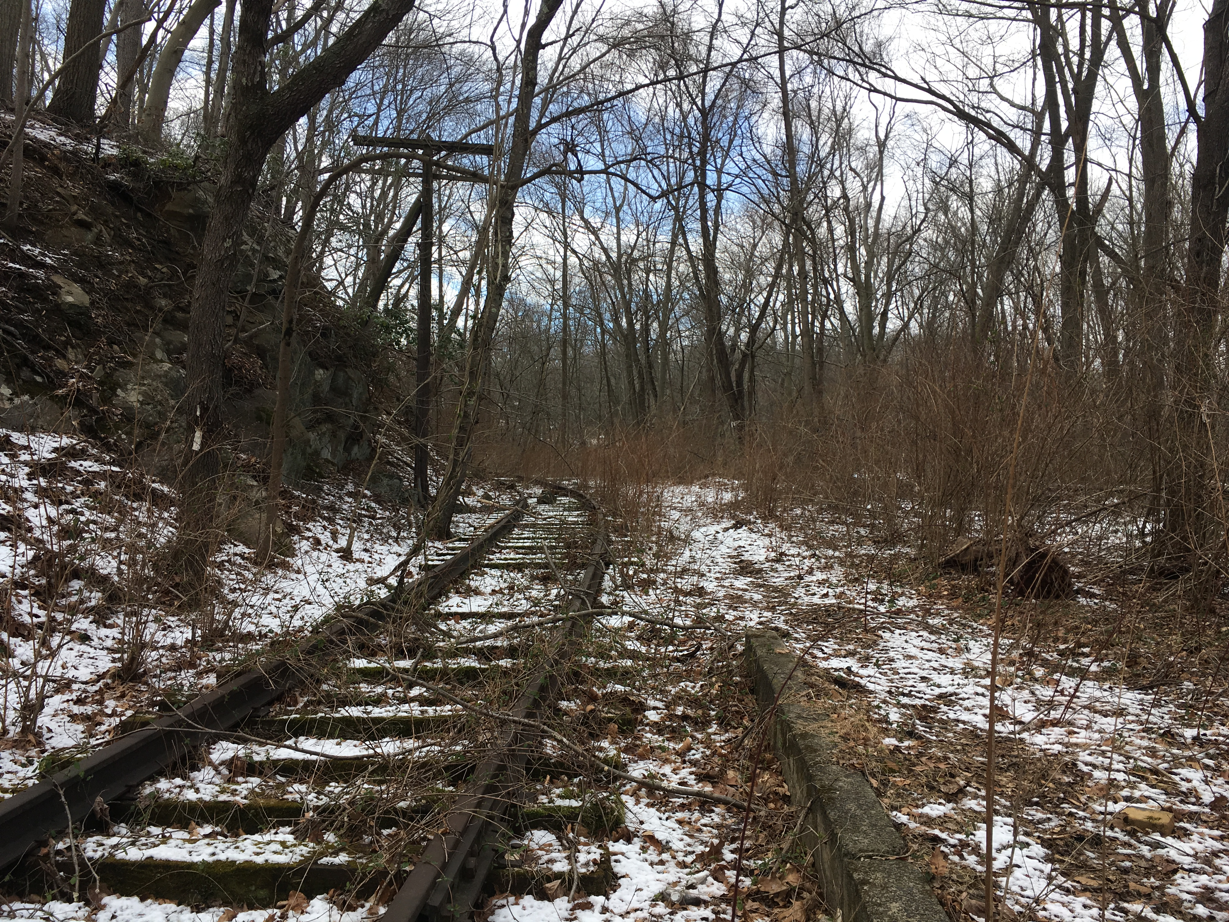 Looking down former Octoraro Branch from Wawa station platform in 2017